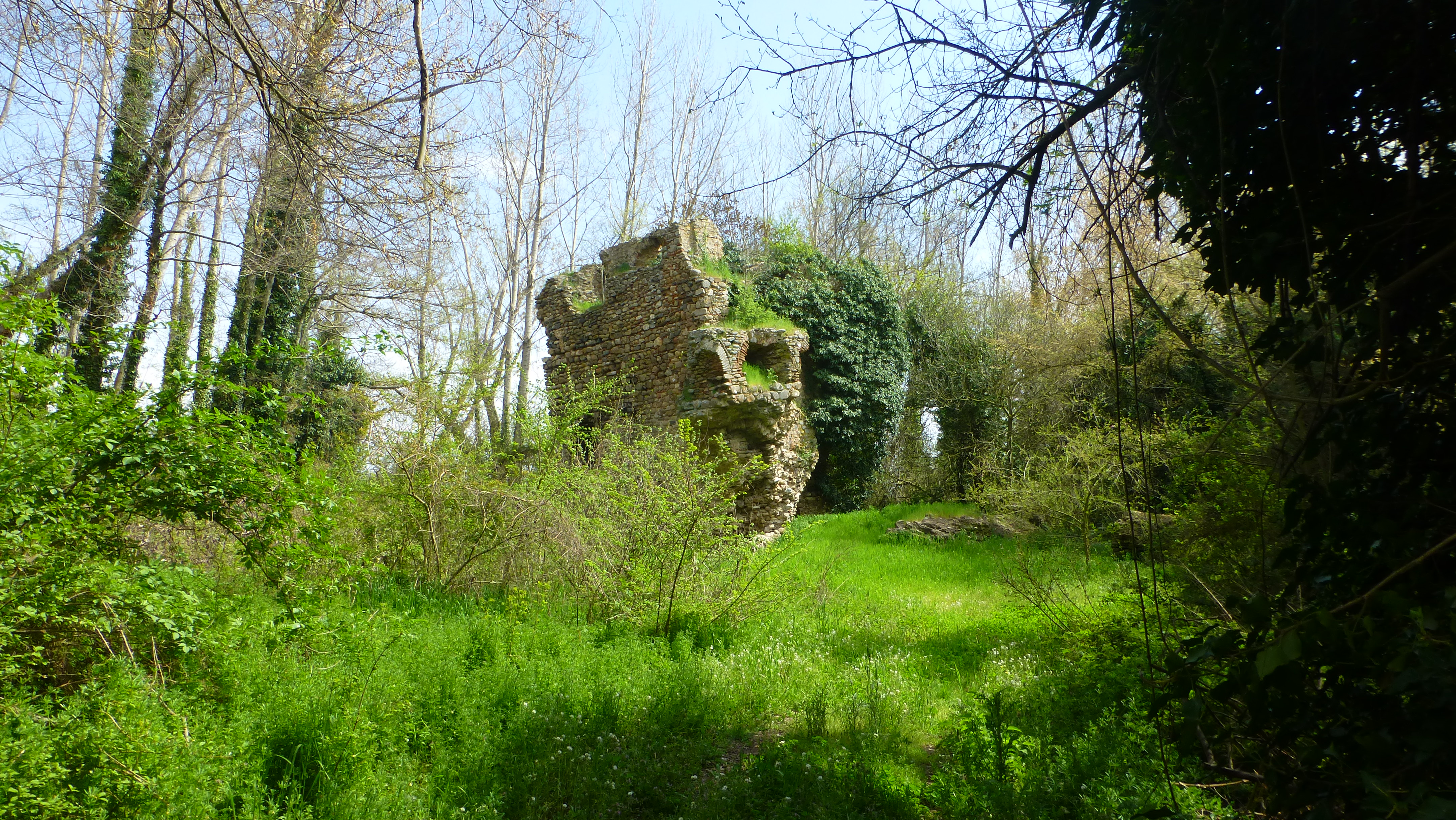 Anastasiopolis, Xanthi, Komotini, Greece